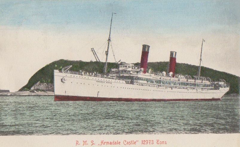 Postcard entitled R. M. S. "Armadale Castle" 12973 Tons, also marked "Published by Sallo Epstein & Co., Durban", used in the post with a King Edward VII penny stamp of Natal and postmarked "DE 20 04" (for 20 December 1904)